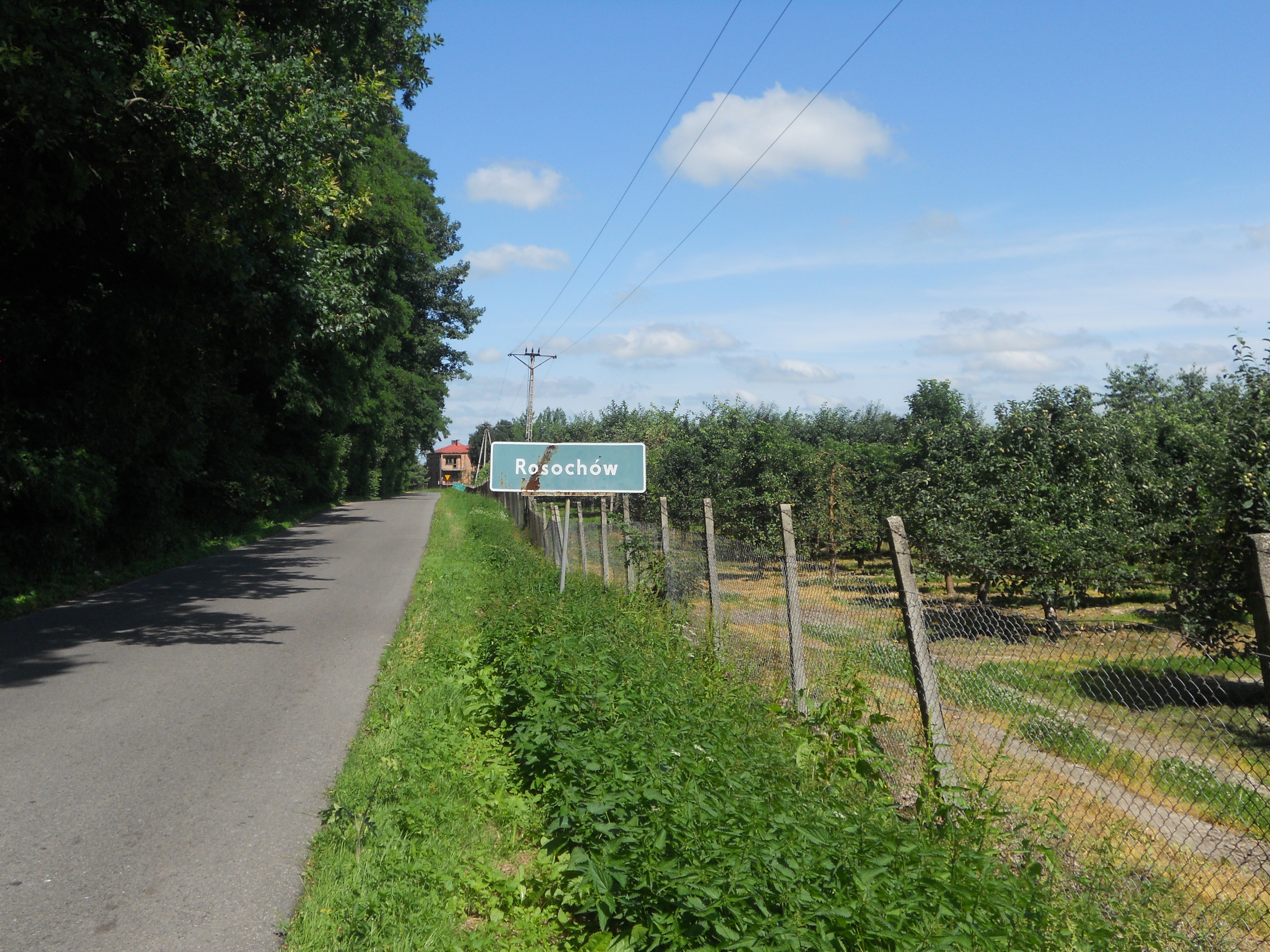 Rosochow